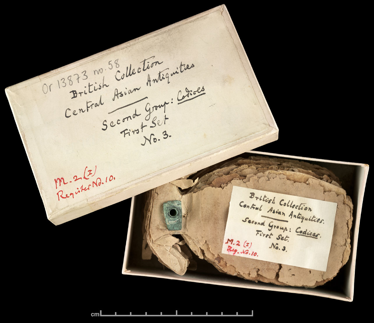 A manuscript forgery produced by Islam Akhun and sold to George Macartney in Kashgar.